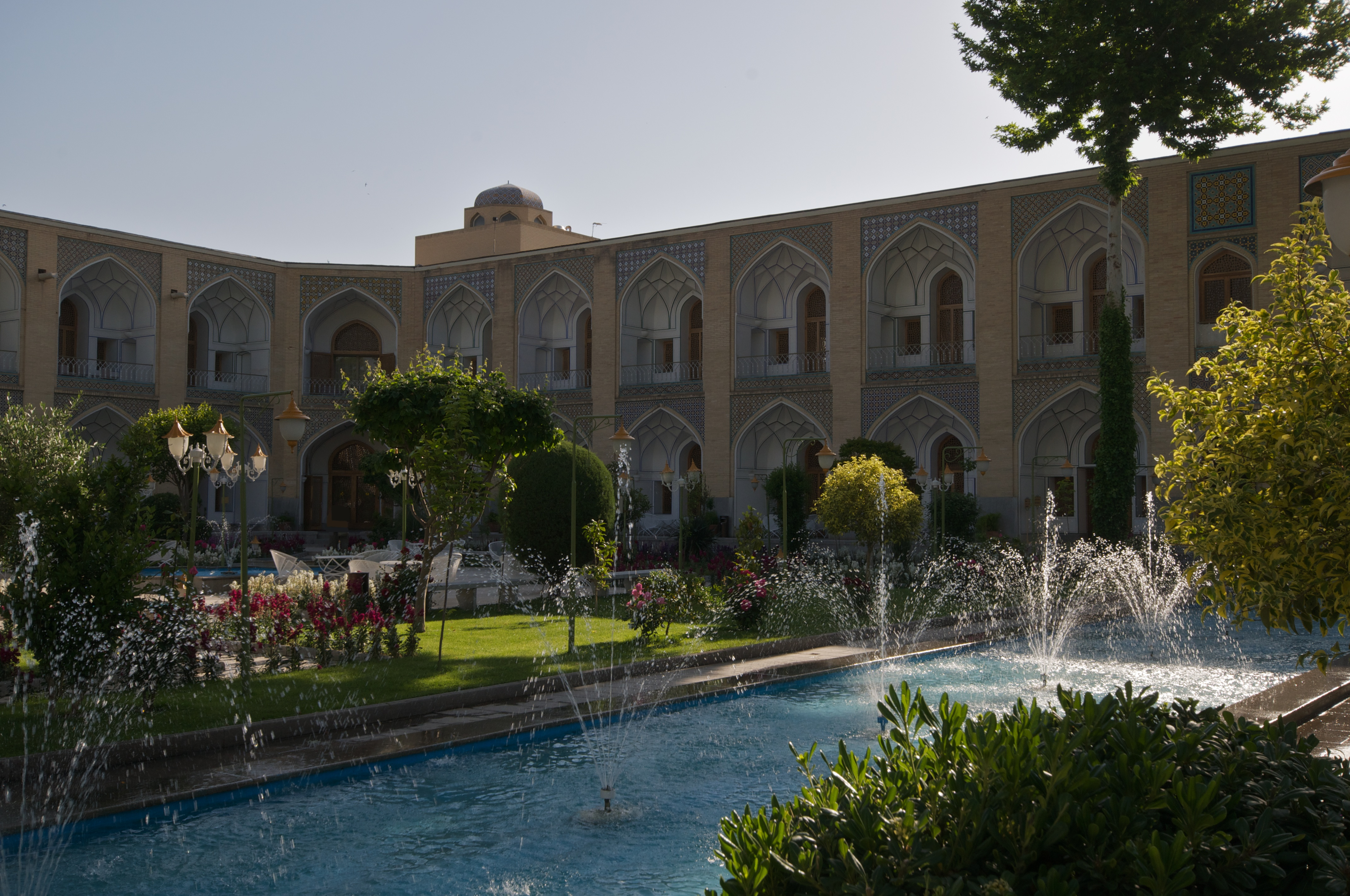 Hotel Gardens, Abbasi Hotel, Esfahan, Iran.